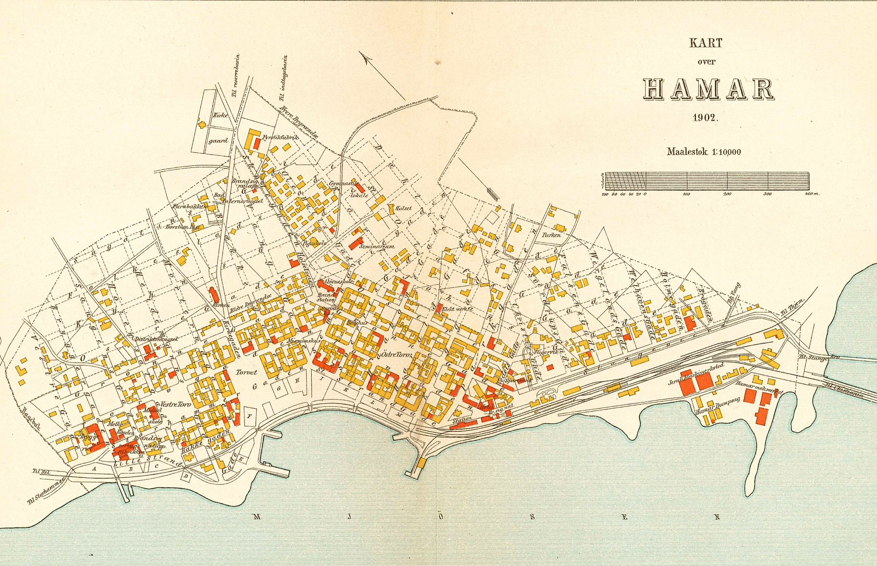 Hamar (Norway) city plan.